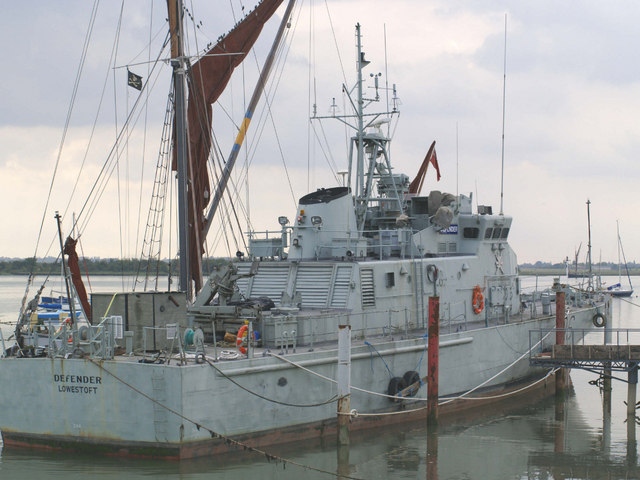 Defender at Heybridge Basin The former Brooke Marine, Lowestoft built , Omani Naval fast patrol vessel Al Majihad which was donated by the Sultan of Oman to Lowestoft to the Maritime Defence Museum (Lowestoft) Ltd. and to its successor company, Lowestoft Maritime Defence Museum Ltd.